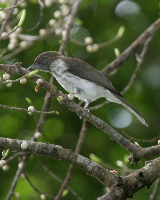 Streaked Bulbul Ixos malaccensis Changi Village, Singapore 2nd. January 2006 Alt. names: Green-backed Bulbul, Streaked Bulbul Malay: Merbah Lorek Thai: นกปรอดหลังเขียวอกลาย Distribution